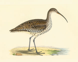 Slender-billed Curlew (Numenius tenuirostris) print (1866) by C. R. Bree.